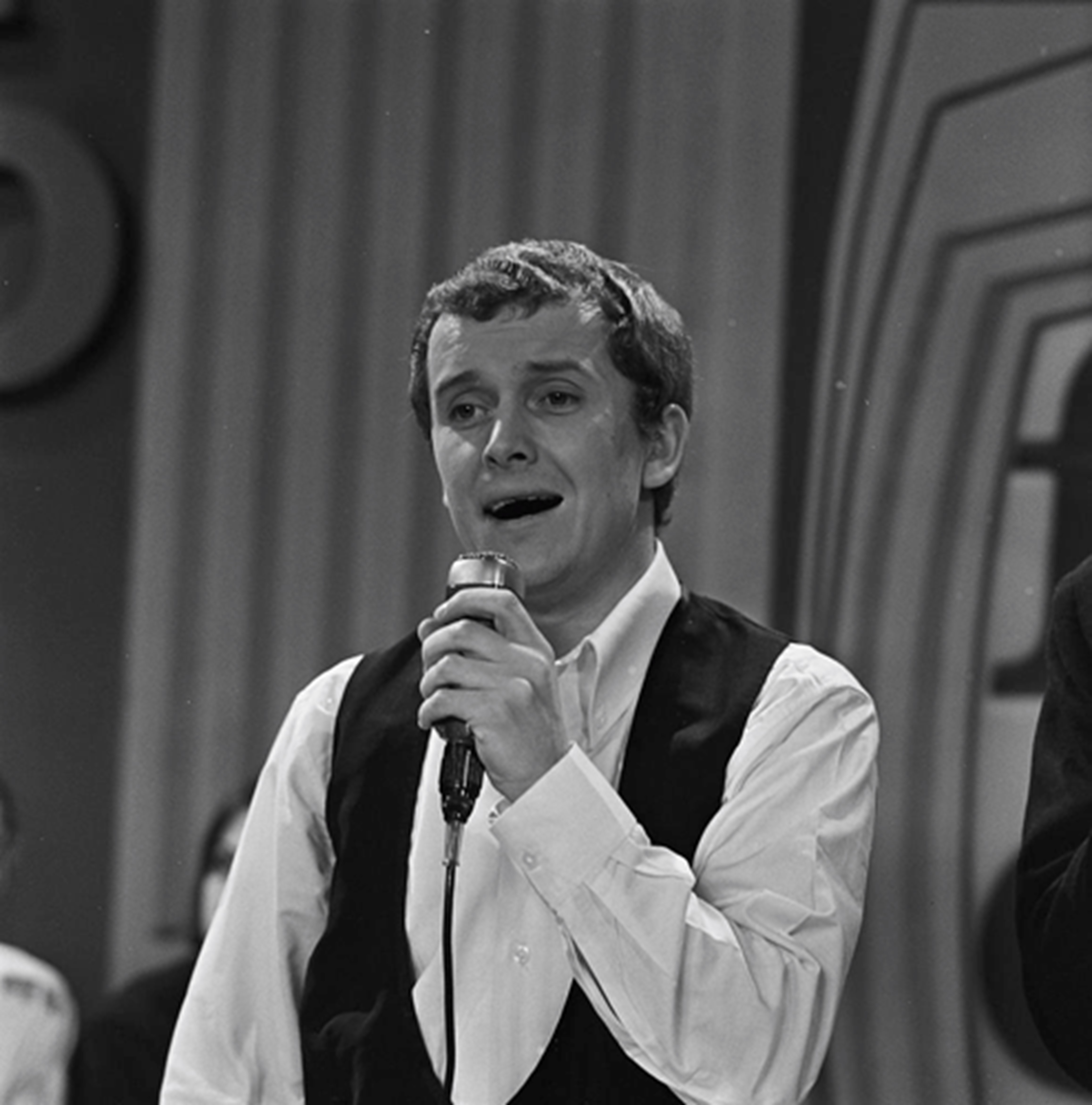 Roger Greenaway of Bristol band David and Jonathan performing the songs "Looking for my life" and "Ten stories high" in the Dutch TV programme Fanclub. Recorded 7 January 1967, broadcast 13 January 1967